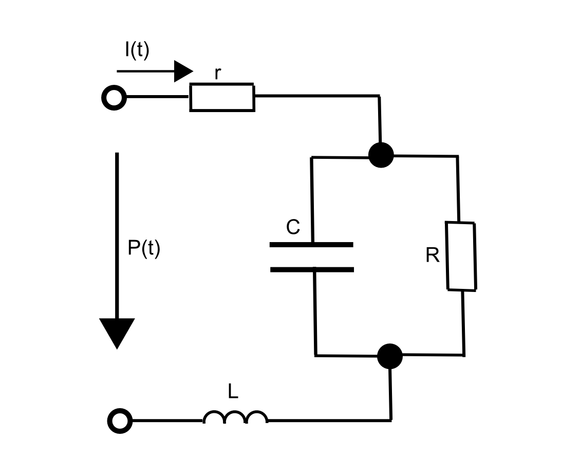 Windkessel model (4-elements)